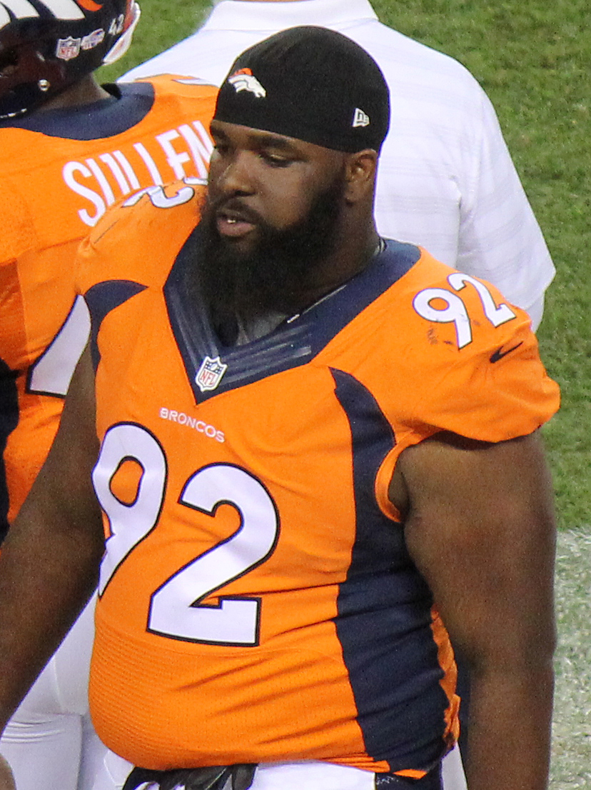 Sylvester Williams, a player on the National Football League.